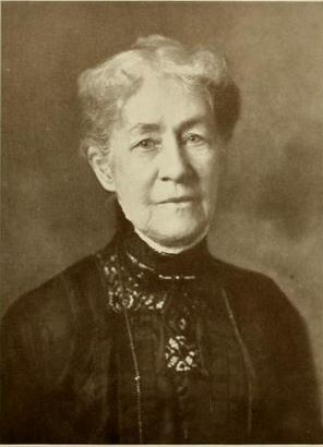 Sophronia Wilson Wagoner, Kajiwara Photo, Johnson, Anne (André) "Mrs. Charles P. Johnson", 1871-. Notable women of St. Louis, 1914; (Kindle Location 4402). [St. Louis, Woodward.]